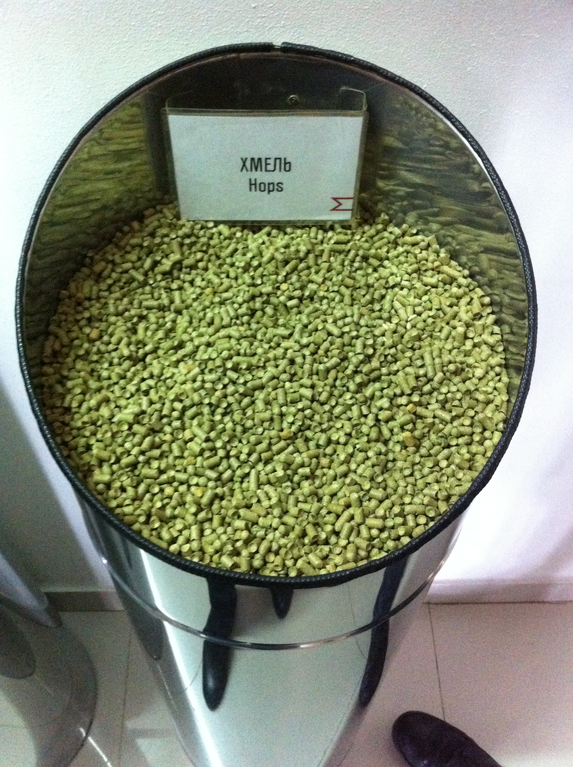 Hops are used for beer brewing. The sample at the brewery Moscow Brewing Company.